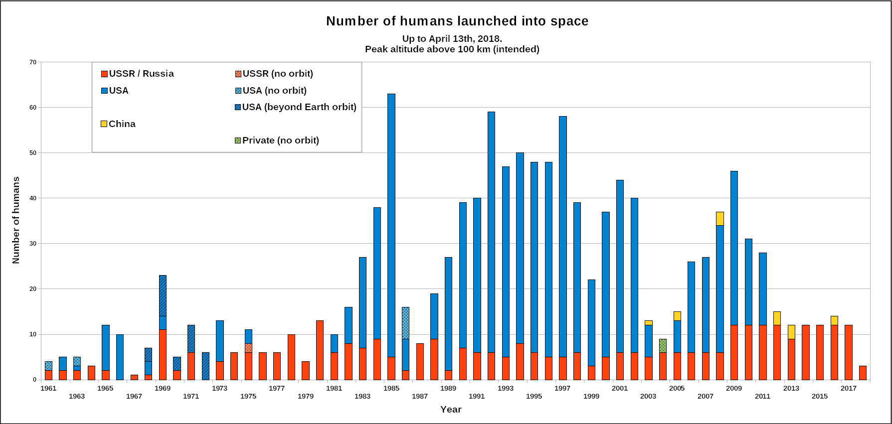 Bar chart showing the number of humans launched into space each year up to the year 2017, including the intended launches STS-51-L and Soyuz T-10-1. (Note that this is not the number of unique individuals who have flown in space, as repeat flights are included.)